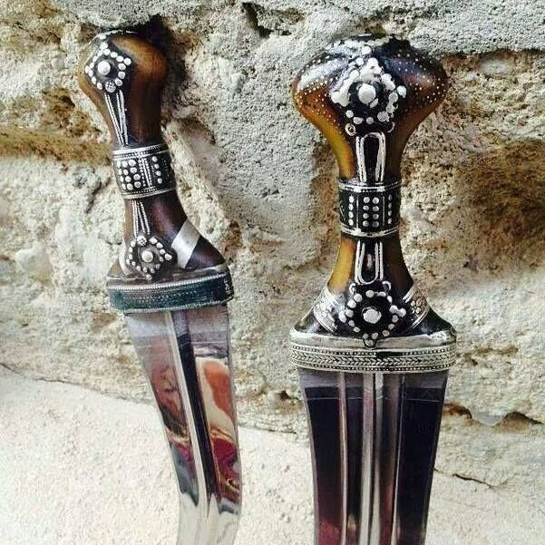 Southern Yemeni dagger known as Hadrami Dagger made by Ben Qatian